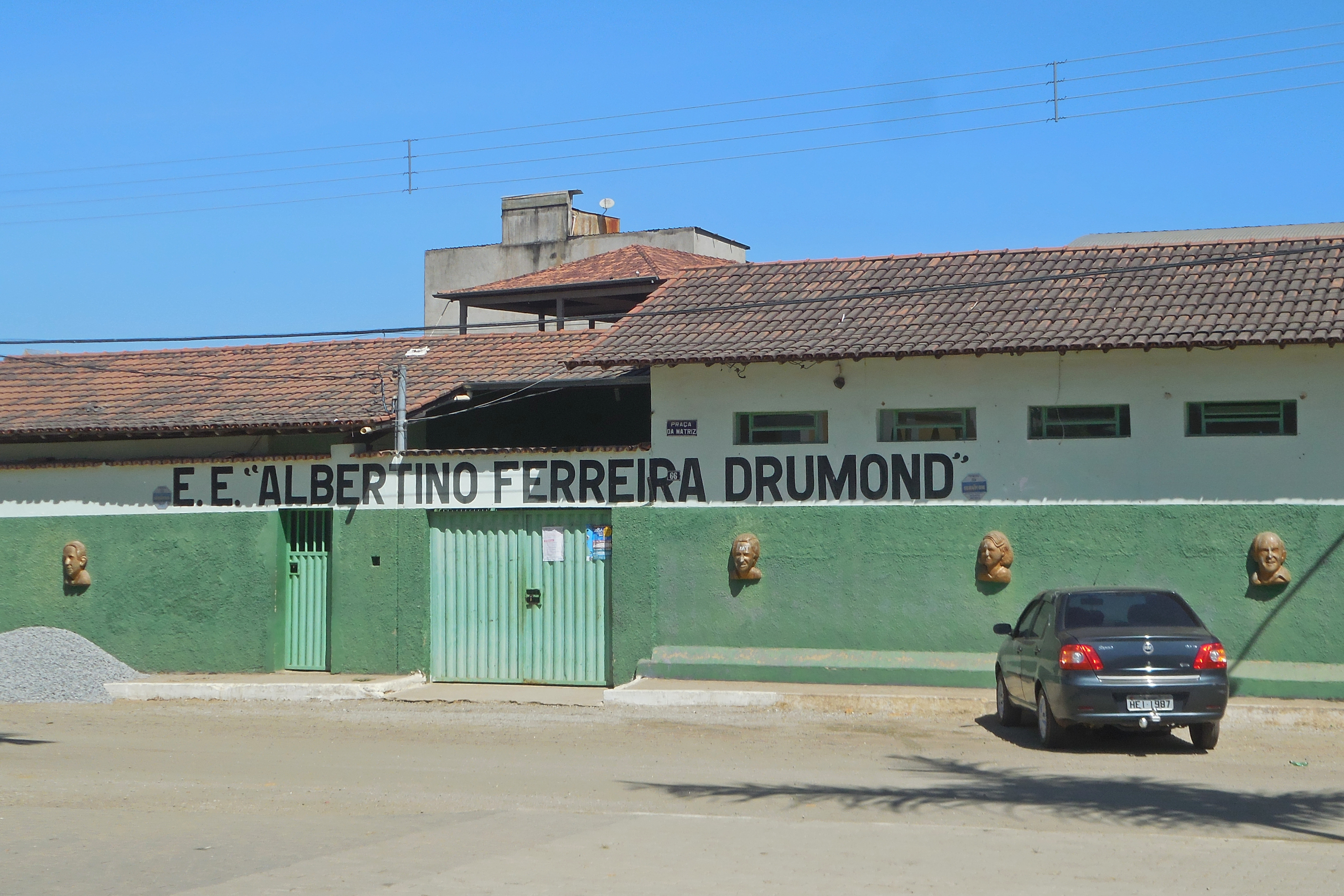 Entrance of the Albertino Ferreira Drumond estadual school, in Santana do Paraíso, Minas Gerais, Brazil.